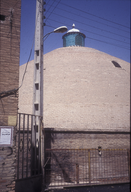 This one comes from a scan of a slide of a picture I took.